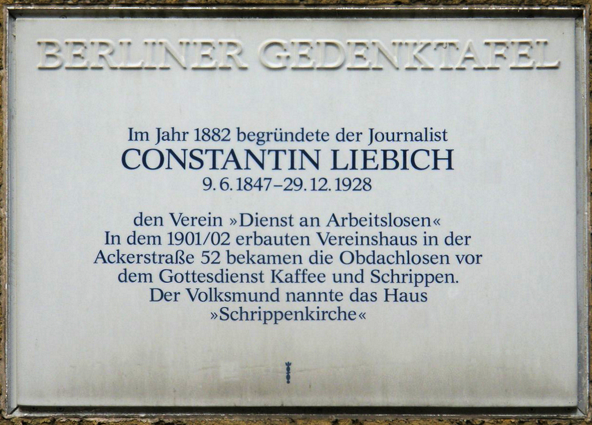 Berlin memorial plaque, Constantin Liebich, Ackerstraße 52, Berlin-Gesundbrunnen, Germany Koordinate:52°32′12″N 13°23′18″E / 52.53667°N 13.38833°E